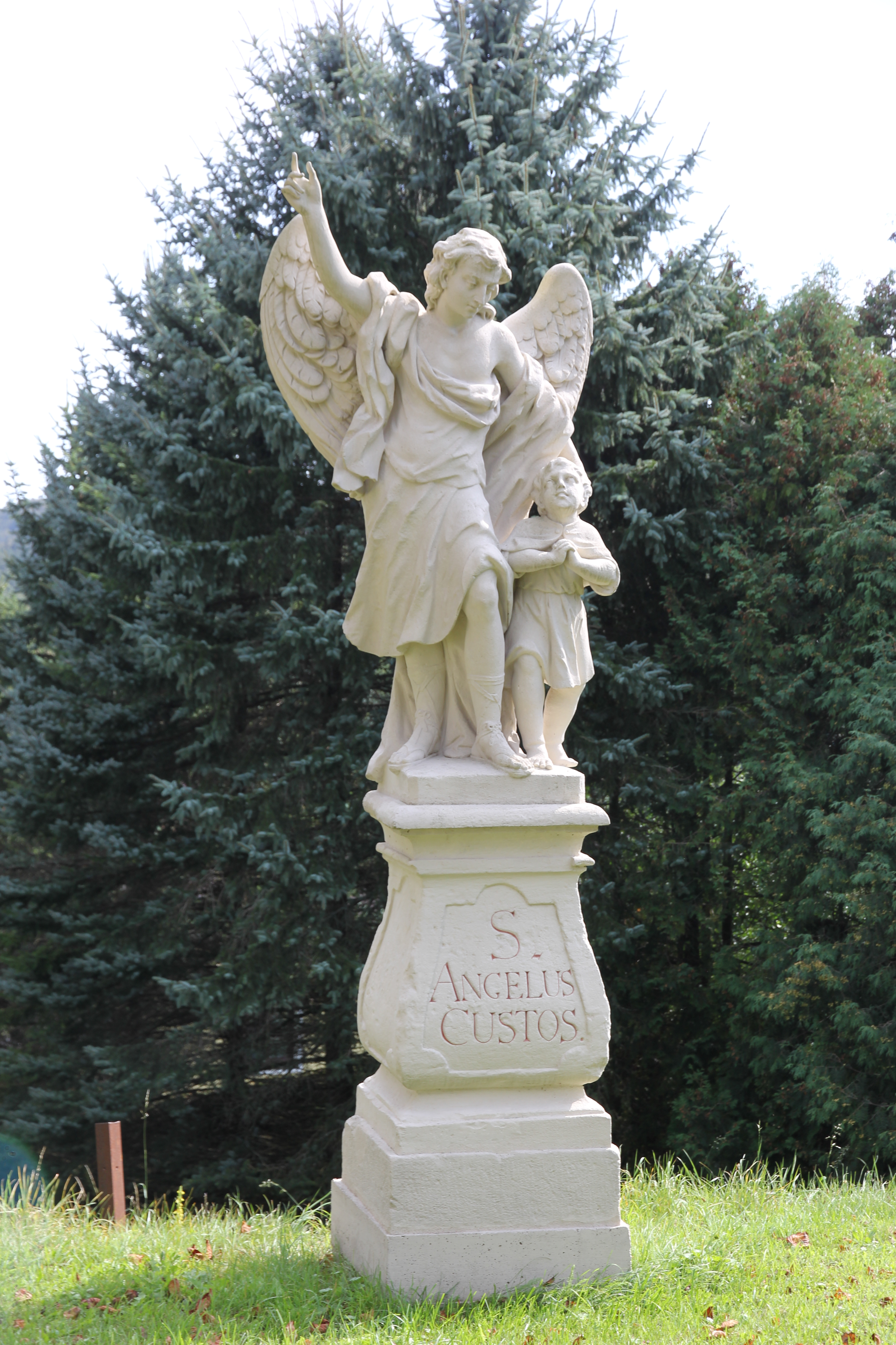 Located among the Stations of the Cross in Heiligenkreuz Cistercian Abbey in Lower Austria; School of Giovanni Guiliani